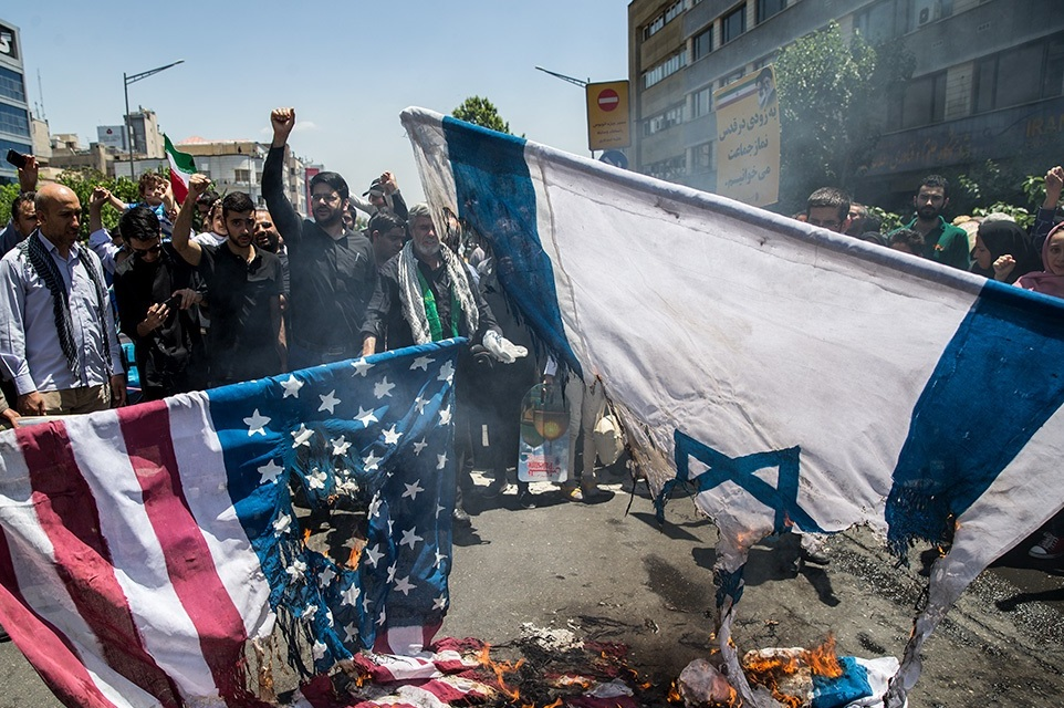 Solidarity in Iran with Gaza Palestinians and against Jerusalem's capitality of Israel